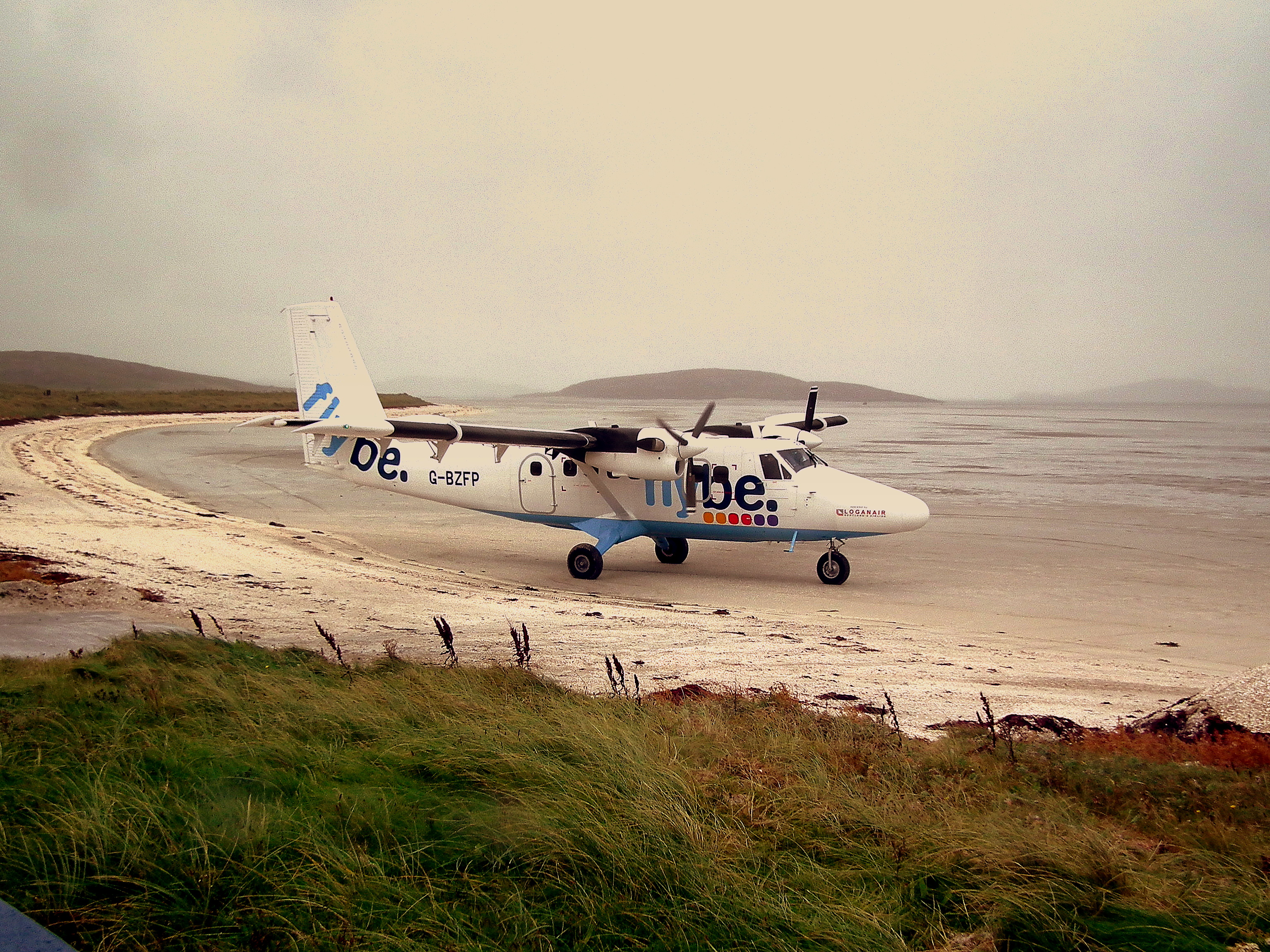 BARRA AIRPORT ISLE OF BARRA WESTERN ISLES SCOTLAND